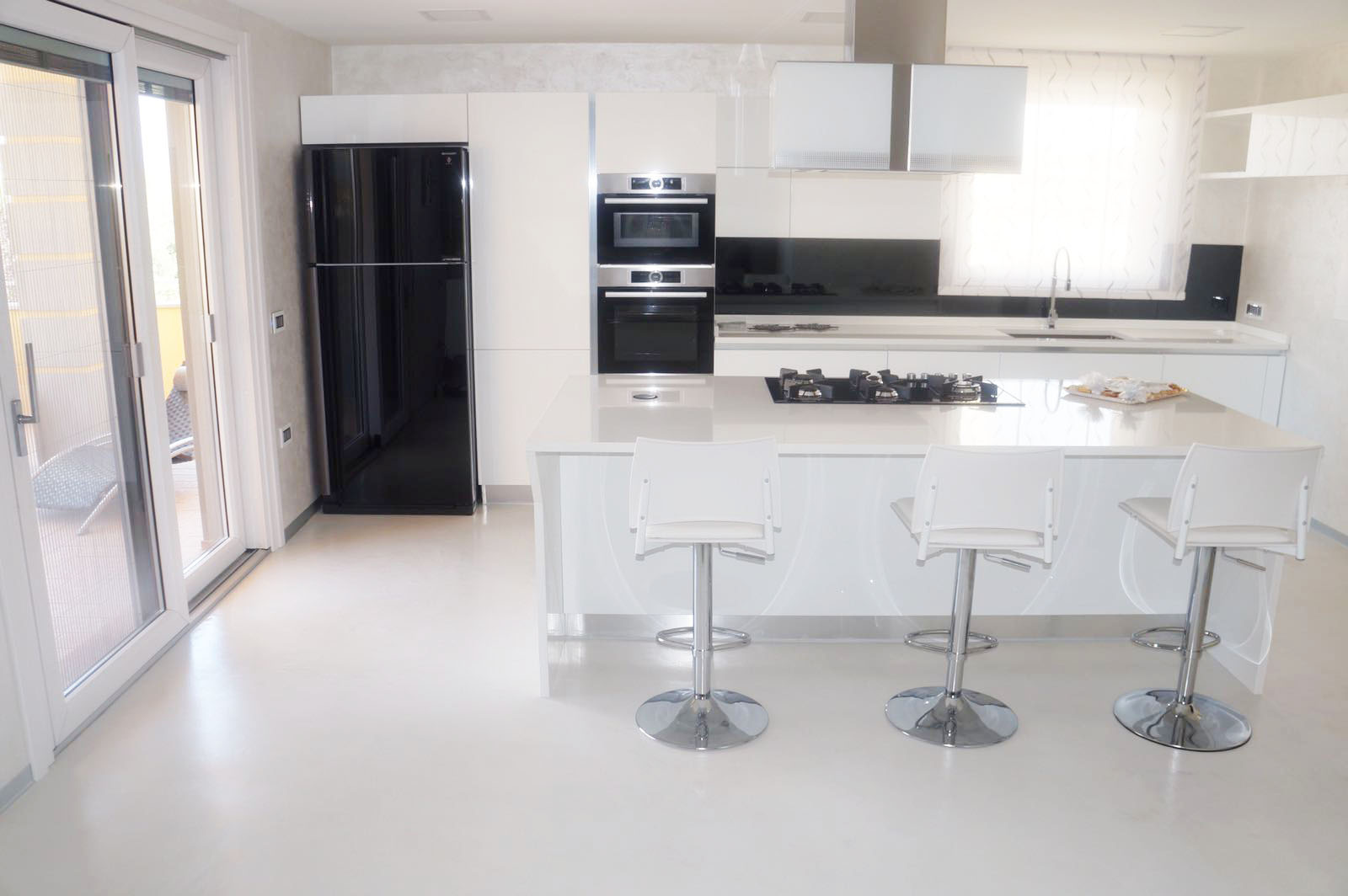 glossy white resin floor